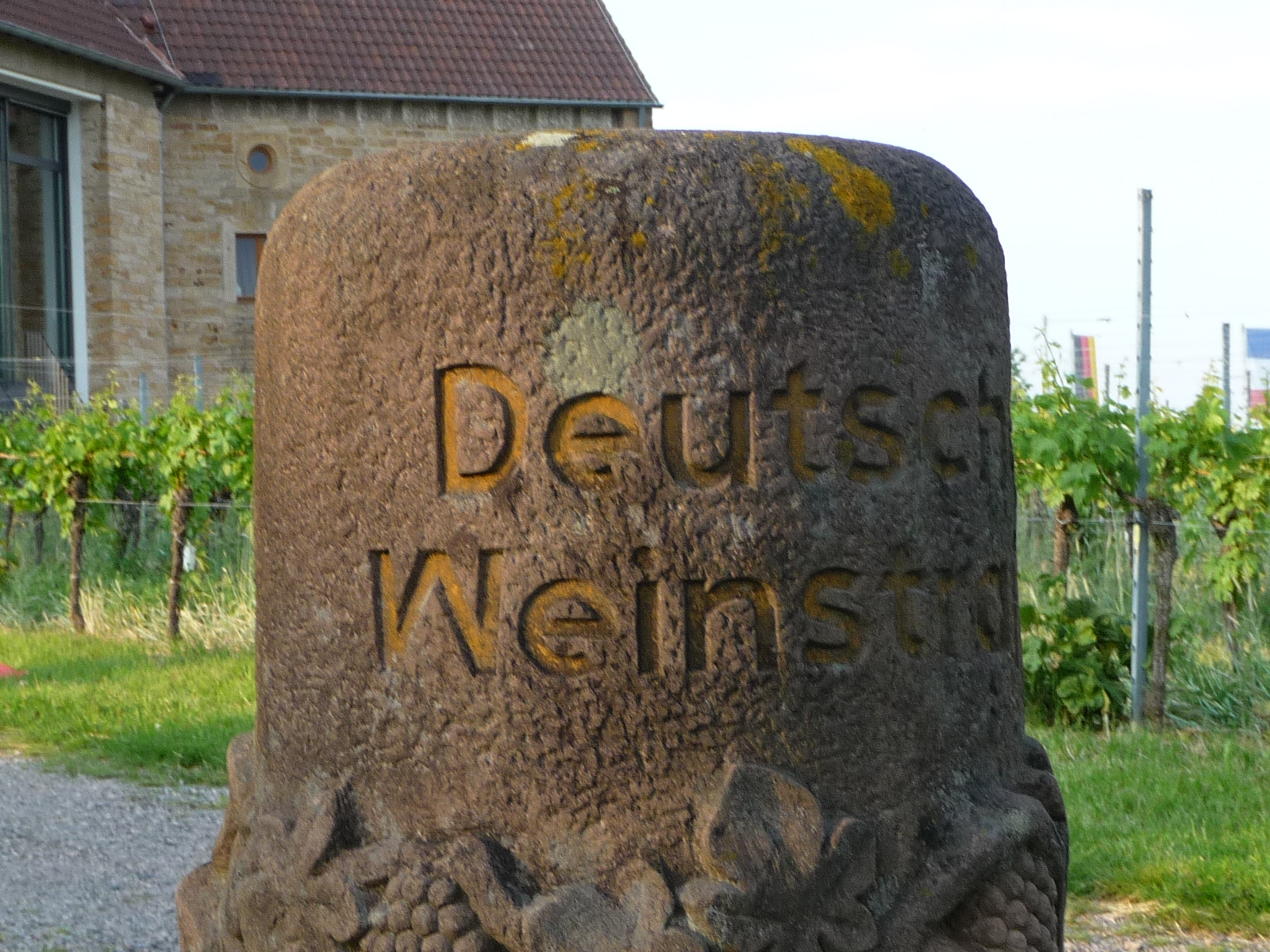 Das Deutsche Weintor in der südpfälzischen Weinbaugemeinde Schweigen-Rechtenbach (Rheinland-Pfalz) markiert seit 1936 den südlichen Beginn der Deutschen Weinstraße.